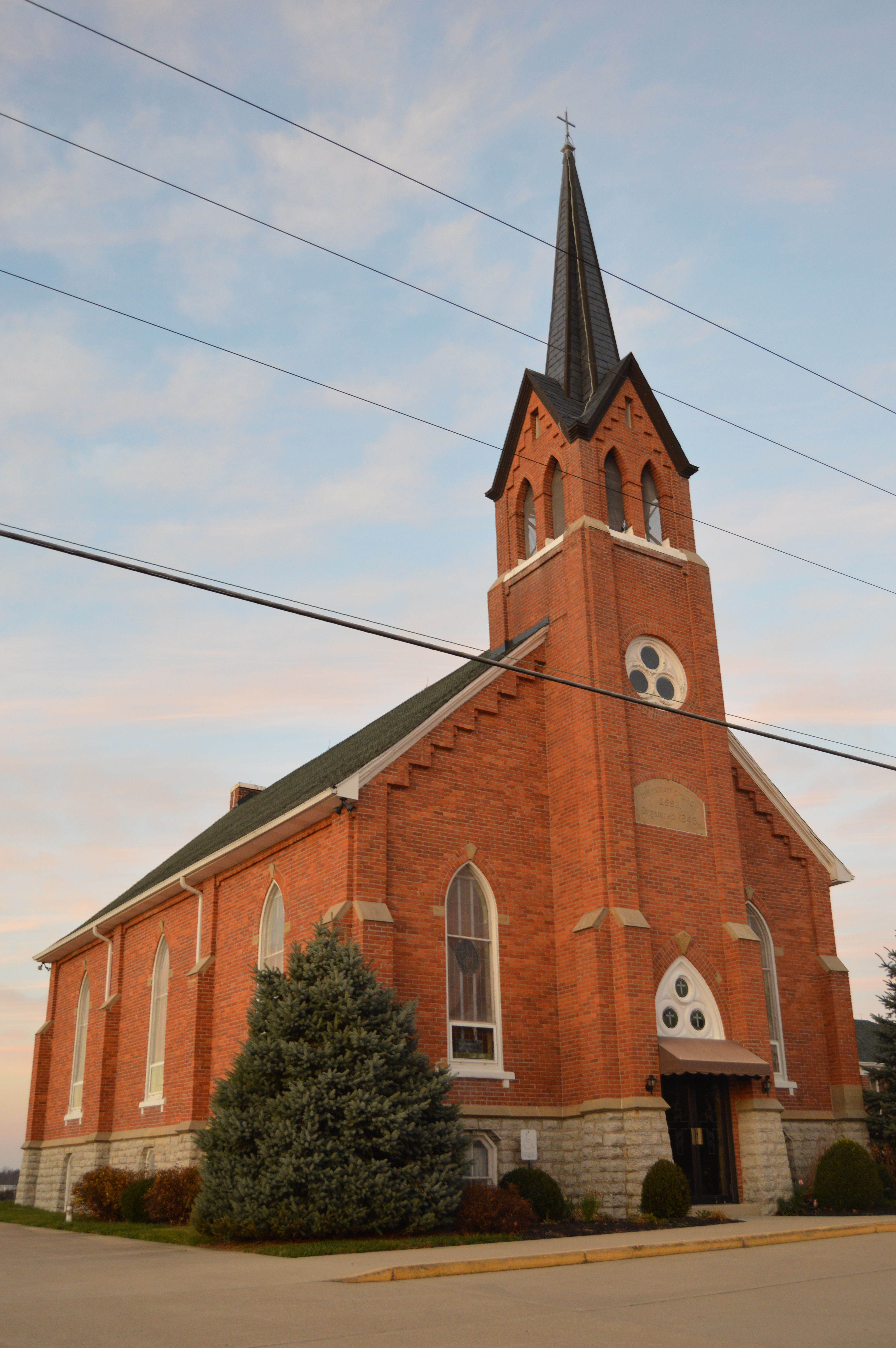 Front and western side of the Houston Congregational Christian Church, located at 4883 Russia Houston Road at Houston in Loramie Township, Shelby County, Ohio, United States. It was built in 1883.